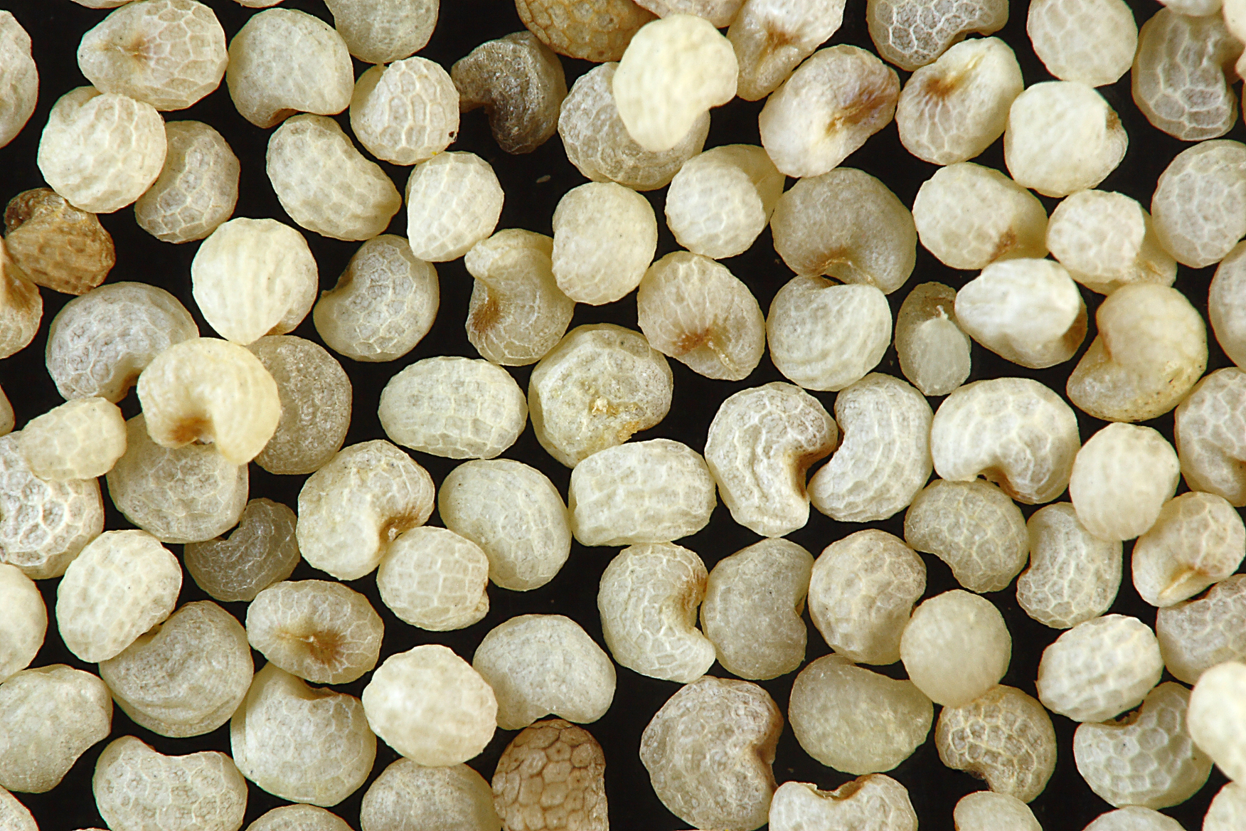 White poppy seeds used for culinary purposes.